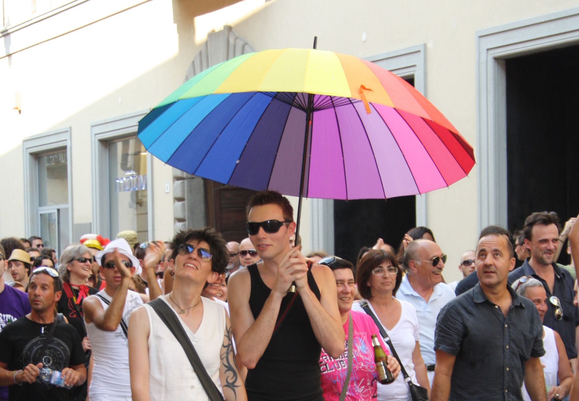 Picture from the LGBT event "Treviglio Pride 2010" hold in Treviglio (Italy) on July, 3, 2010. Picture by Giovanni Dall'Orto.